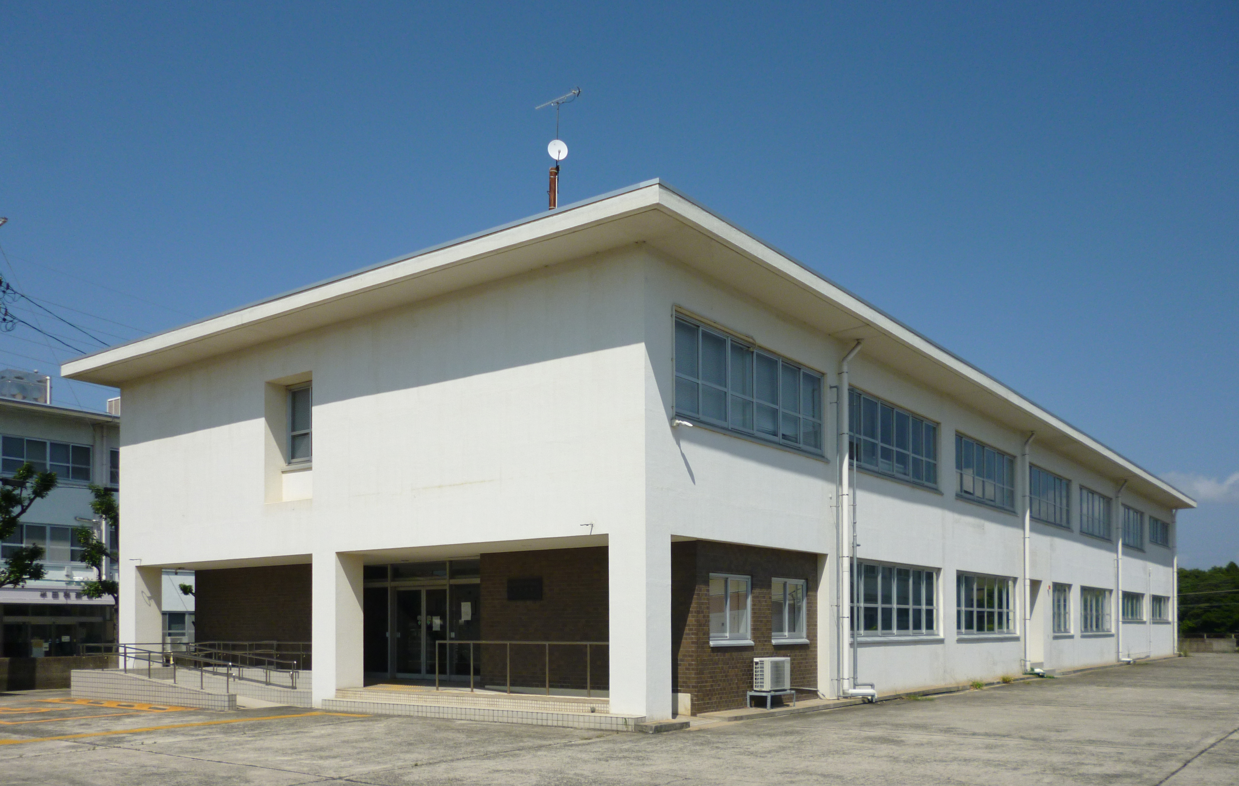 Handa District Public Prosecutors Office in Handa, Aichi.